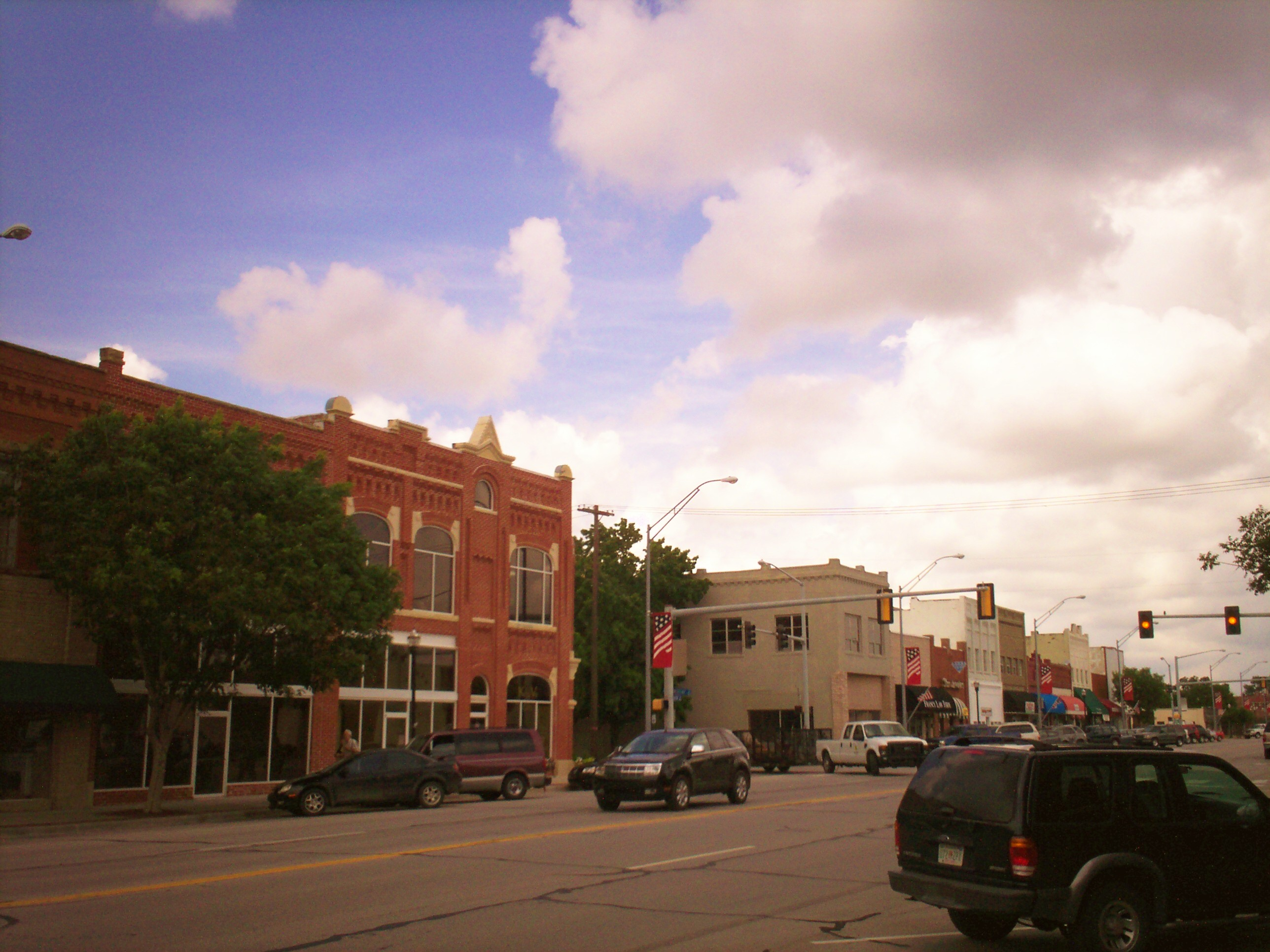 West side of Main Street in historic Downtown Broken Arrow, Oklahoma. Taken by Jordan MacDonald